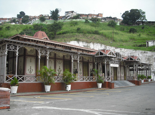 Villa Zoila, was built in 1903 and reconditioned by the Arq. Alexander B. Chataing to seat the Presidential residence of General Cipriano Castro whose name come's from lady Zoila Rosa Martinez de Castro.